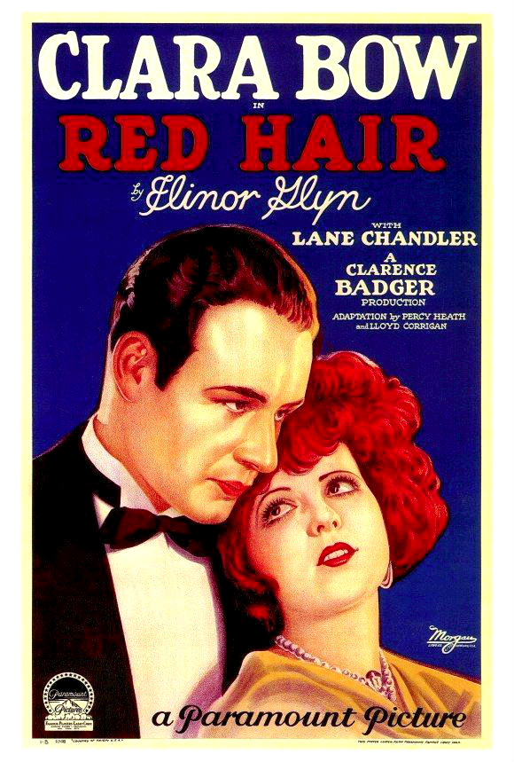 Poster for the American film Red Hair (1928).